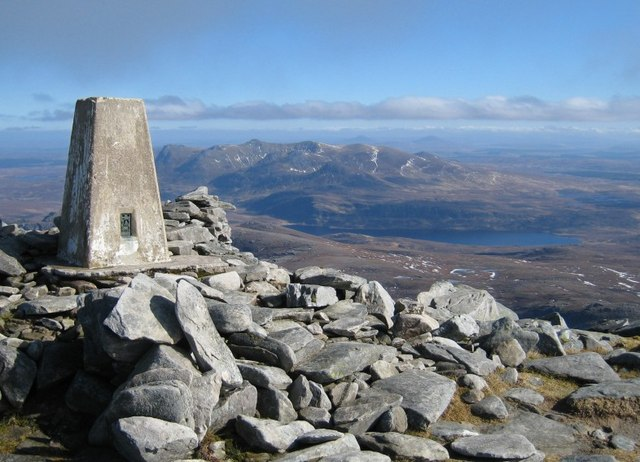 Summit - Ben Hope Looking past the trig point to Ben Loyal.